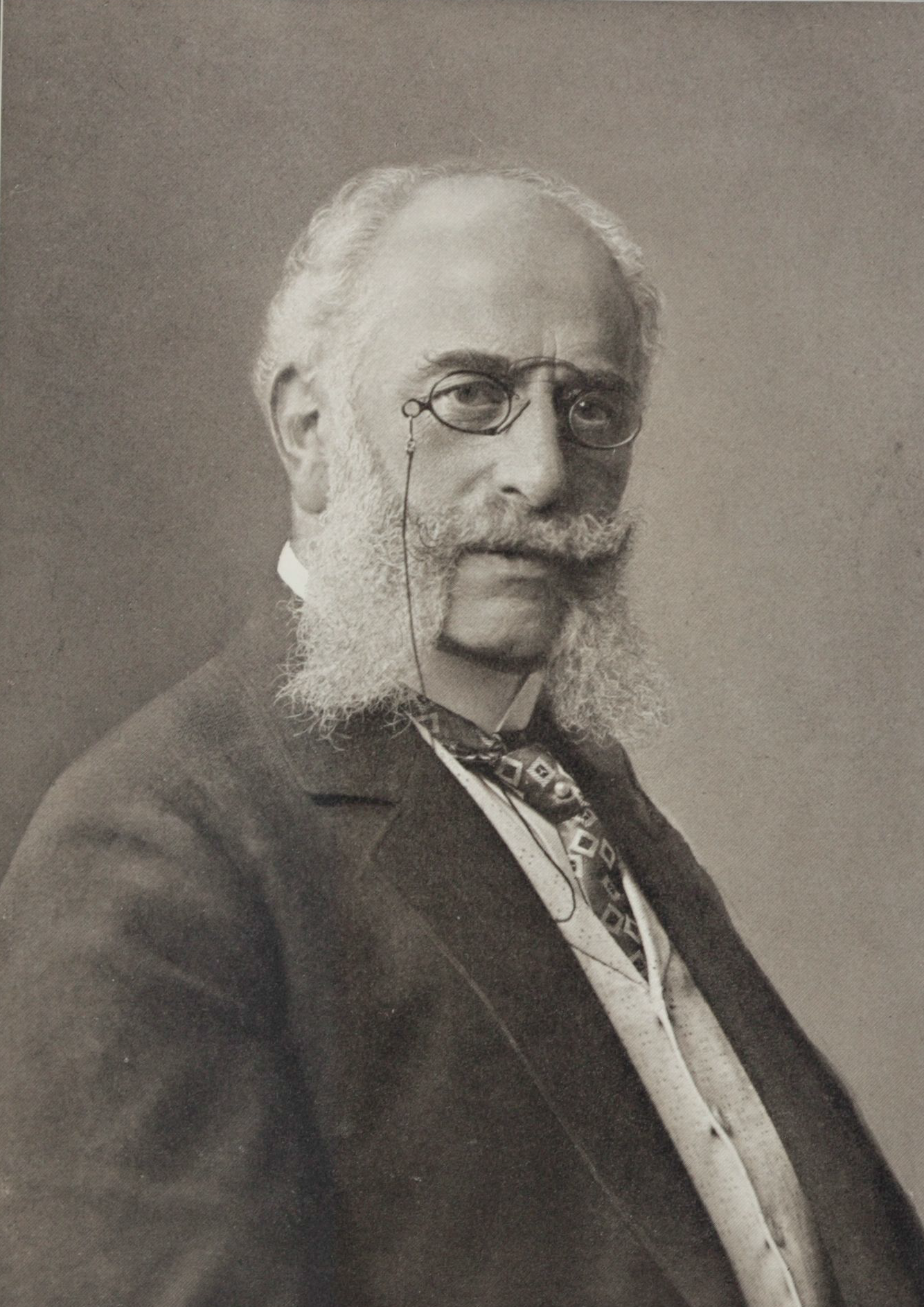 Leonard Berlin (1841–1931), German photographer.